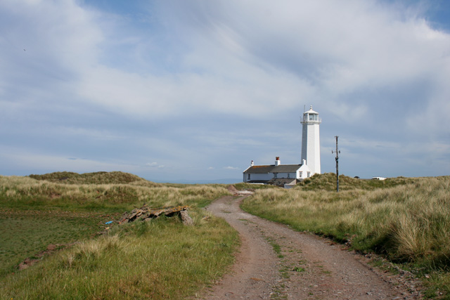 Track to Walney Lighthouse. 3 km from South End, Cumbria, Great Britain.